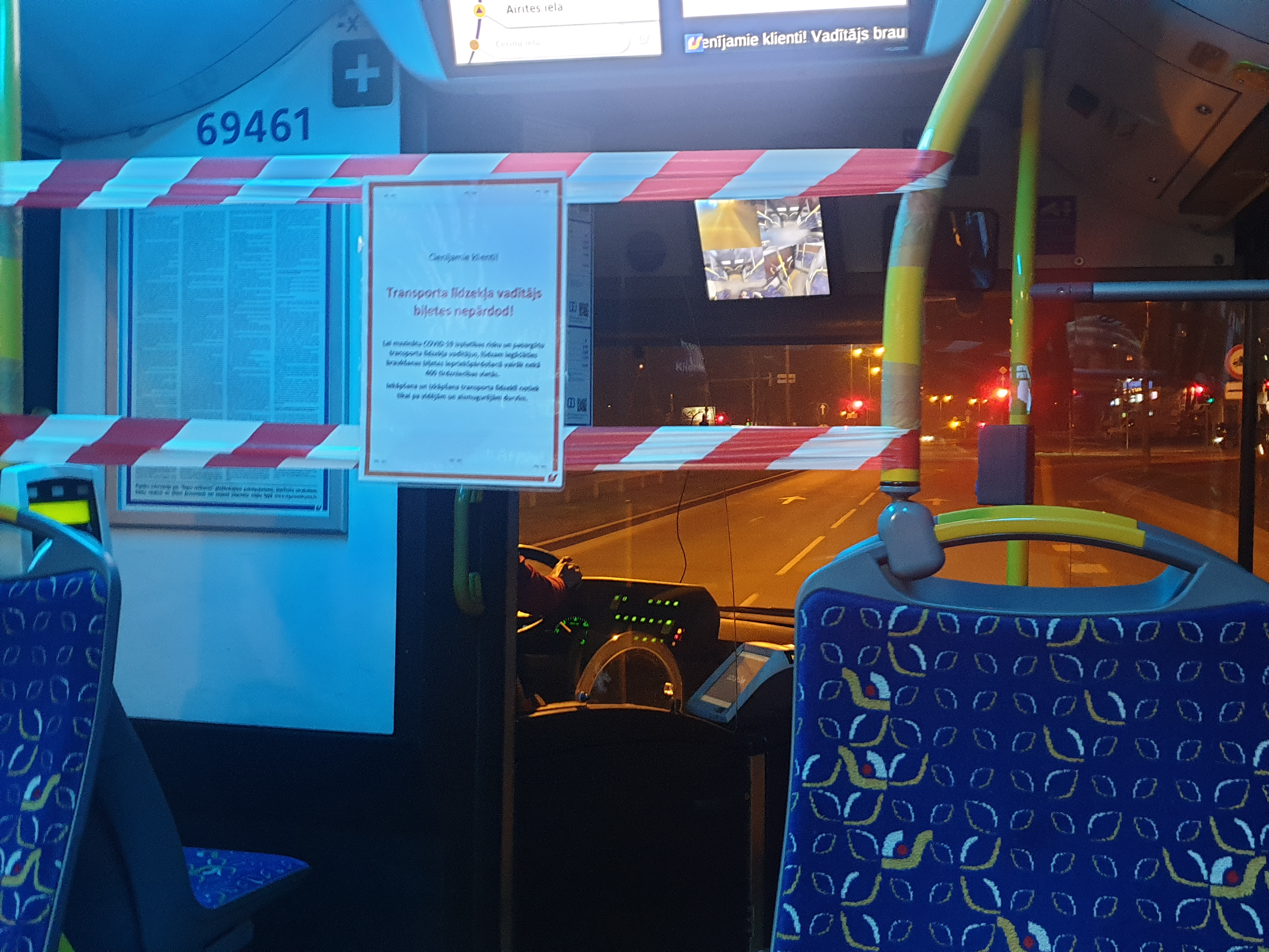 Restriction to approach bus driver during the COVID-19 pandemic in Riga